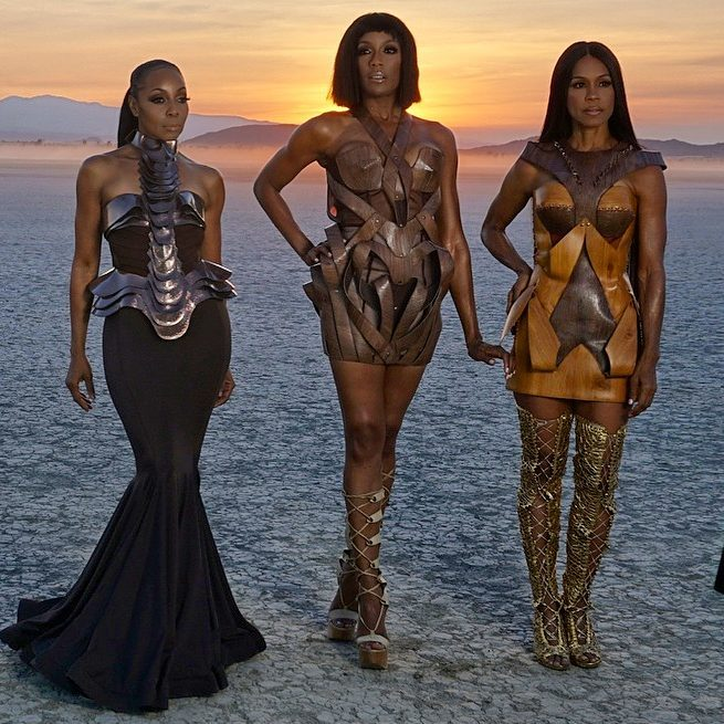 Music Group.